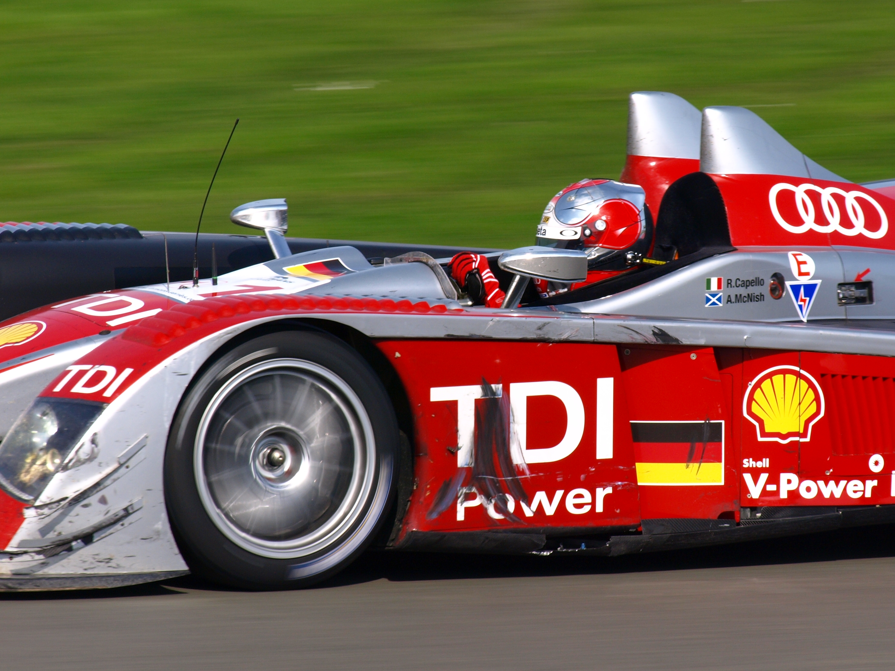 Rinaldo Capello driving the Audi R10 at the 2008 1000km of Silverstone.